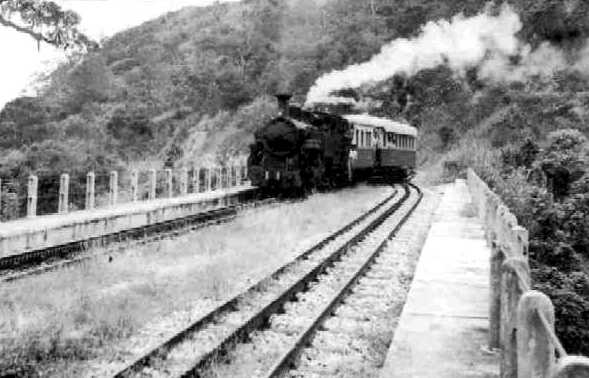 A locomotive travelling on the Thap Cham-Da Lat railway line, during French colonization of Vietnam.